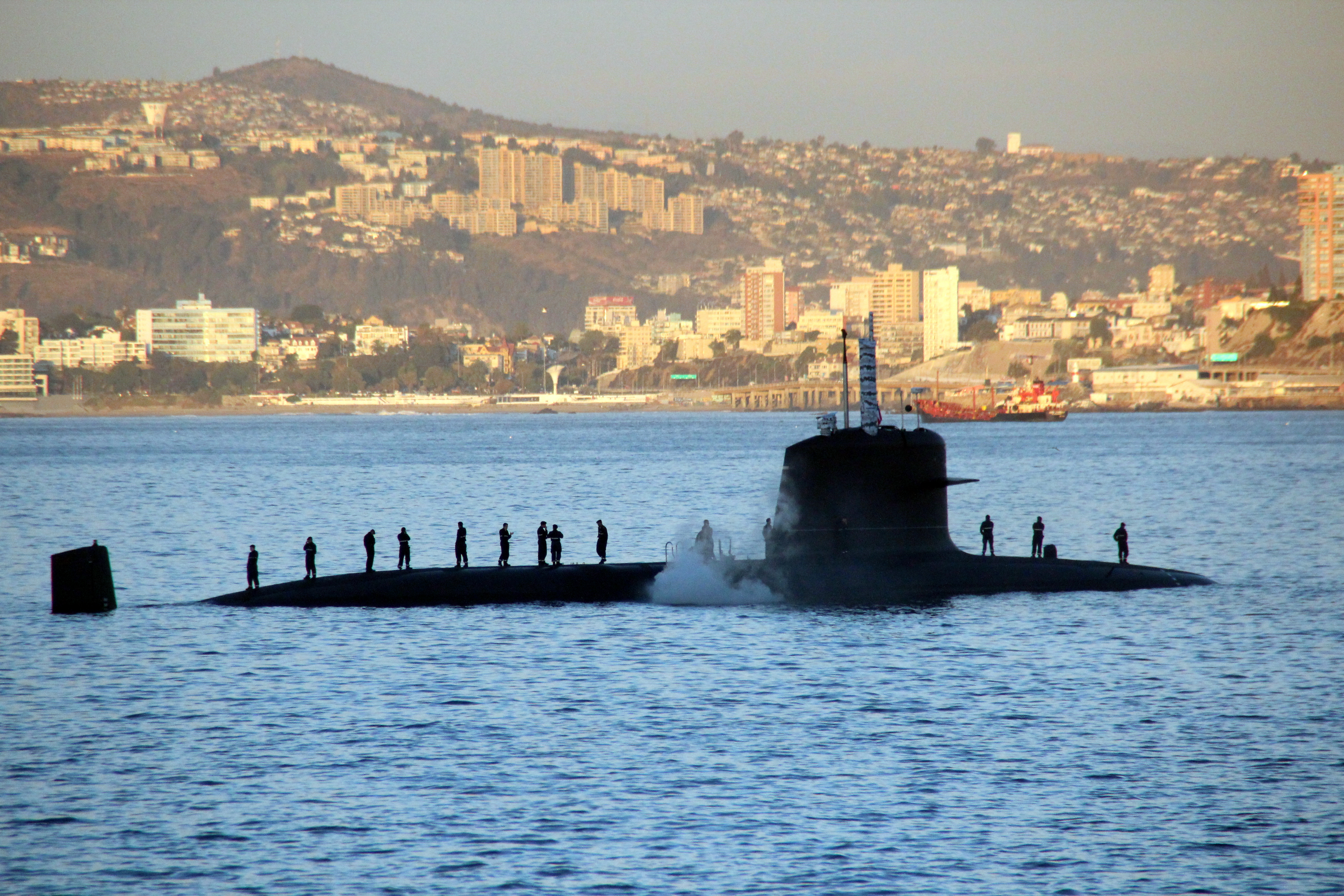 Chilean Submarine of French Scorpène class near harbour of Valparaíso, Chile.